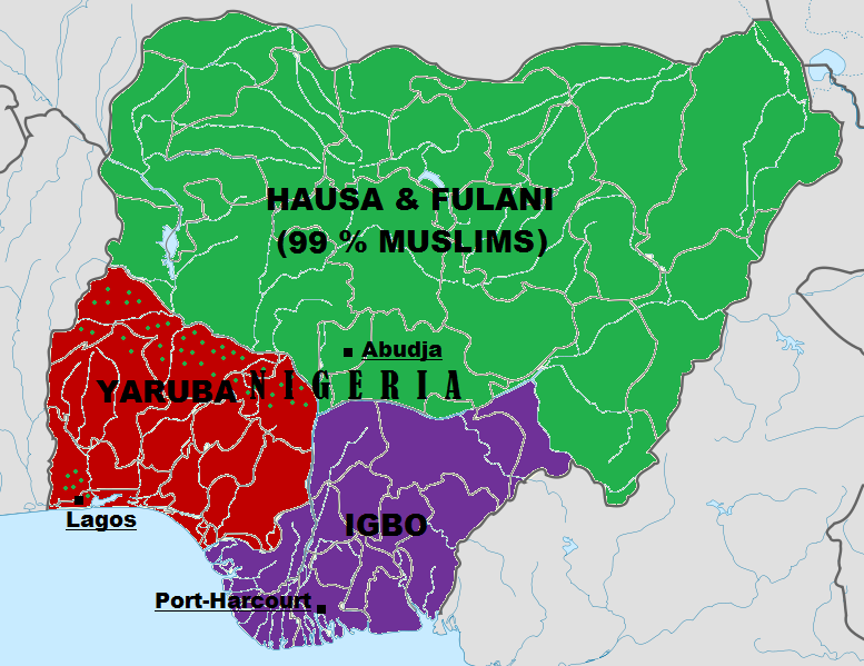 Religius and Ethnics